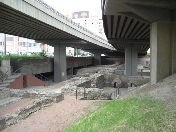 Great bath of the Legions (Thermae Maiores Legionis), Aquincum, Budapest, Hungary